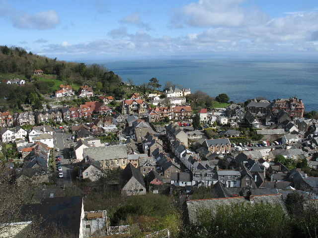 Looking down on Lynton. A description of Lynton/Lynmouth can be found at